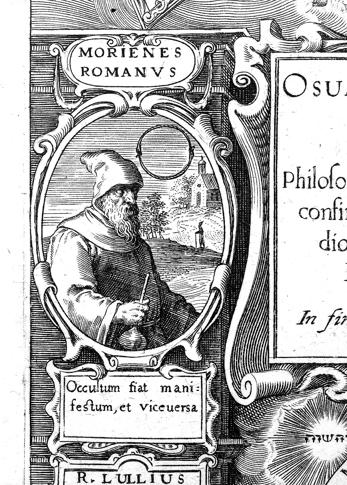 Morienes Romanus illustration Rare Books Keywords: Oswald Croll